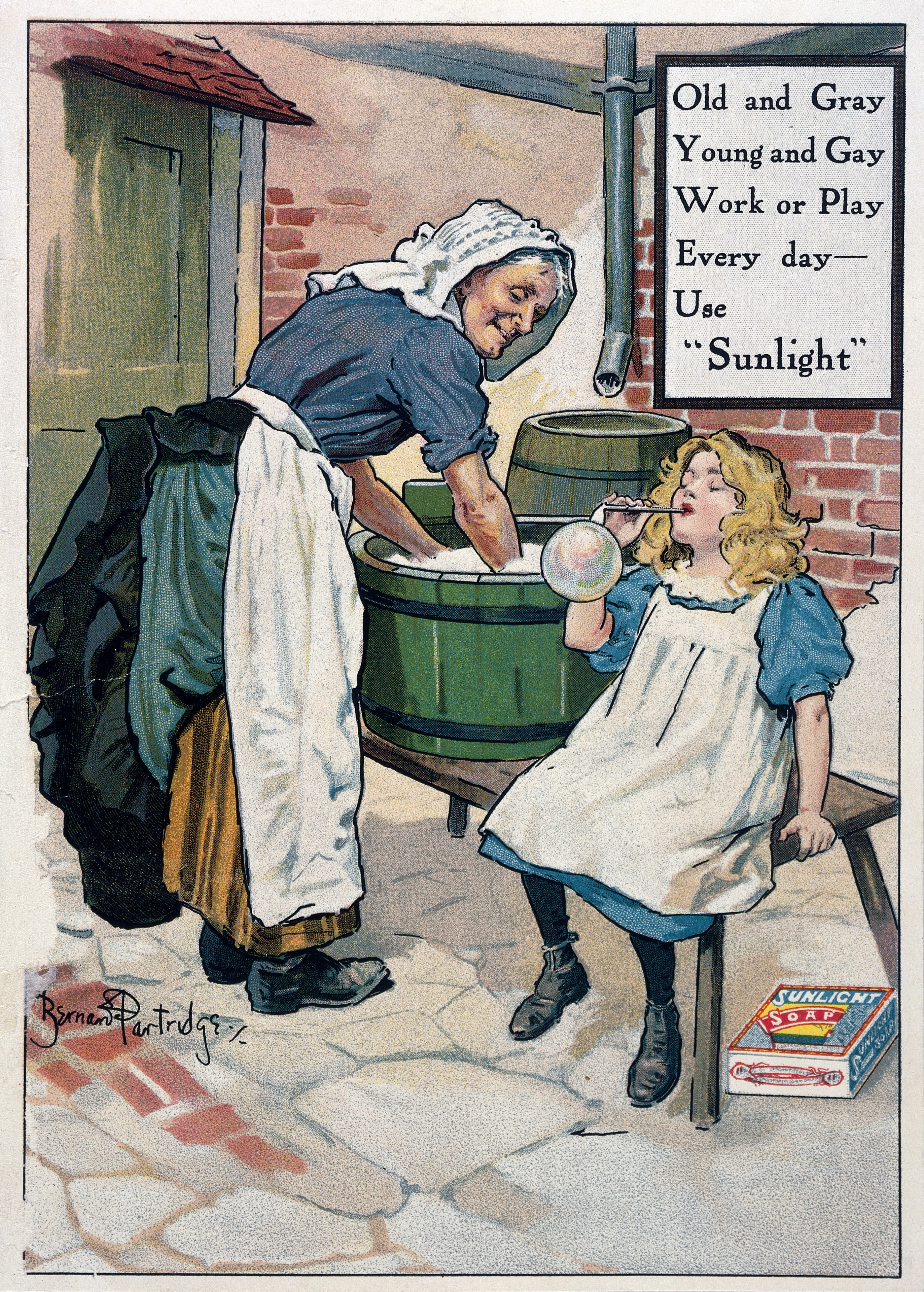 Ephemera Collection. Advertisement for 'Sunlight soap'. Caption reads, "Old and gray, Young and gay, Work or play, Every day...use 'Sunlight'". General Collections Keywords: 19th century; gc; laundry soap; sunlight soap; Ephemera